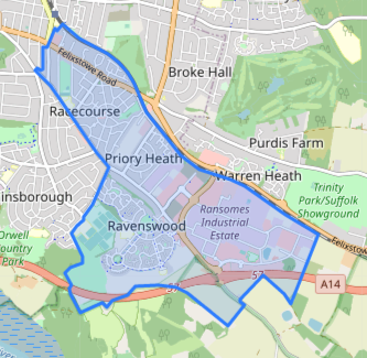 Open Street Map with area shaded blue for Priory Heath Ward, Ipswich This map of South East Ipswich was created from OpenStreetMap project data, collected by the community. This map may be incomplete, and may contain errors. Don't rely solely on it for navigation.